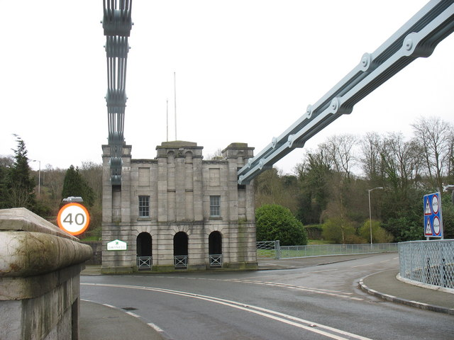 The mainland end of Pont y Borth